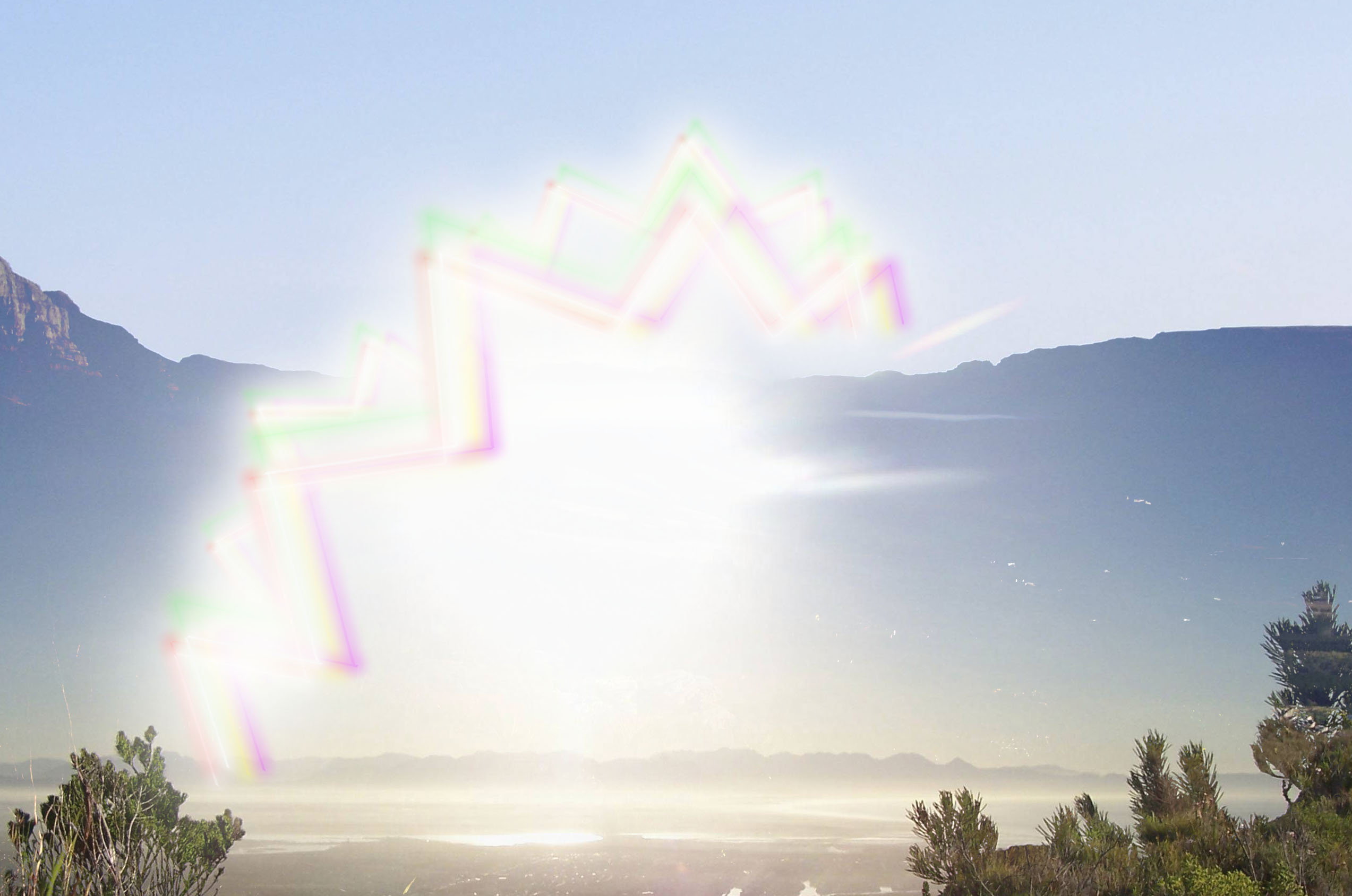 This is an approximation of the zig-zag visual disturbance that I experience as a migraine aura. The picture hardly does it justice! In reality it moves and vibrates, expanding and slowly fading away over the course of about 20 minutes. Translations